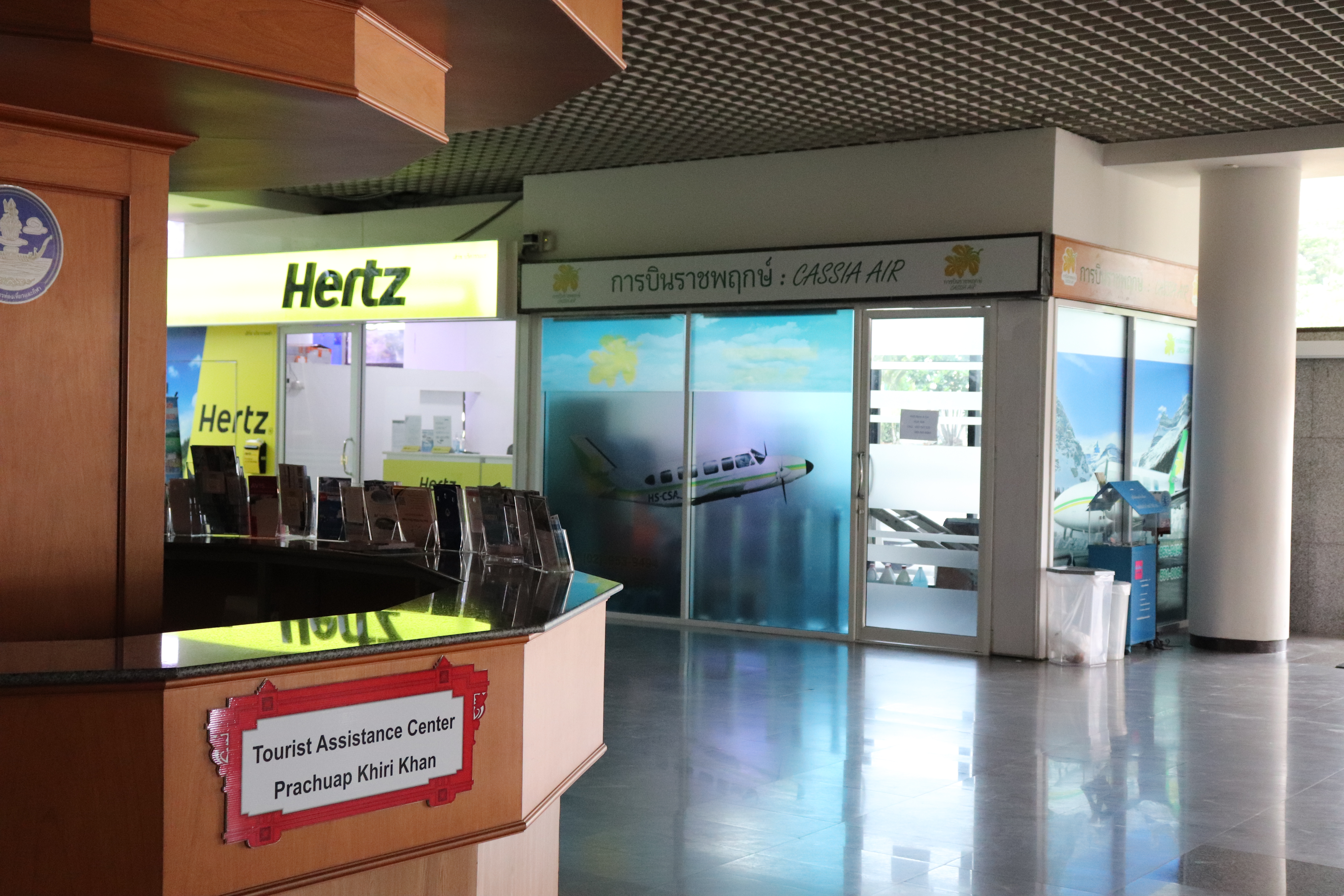 Car Rent at Hua Hin airport